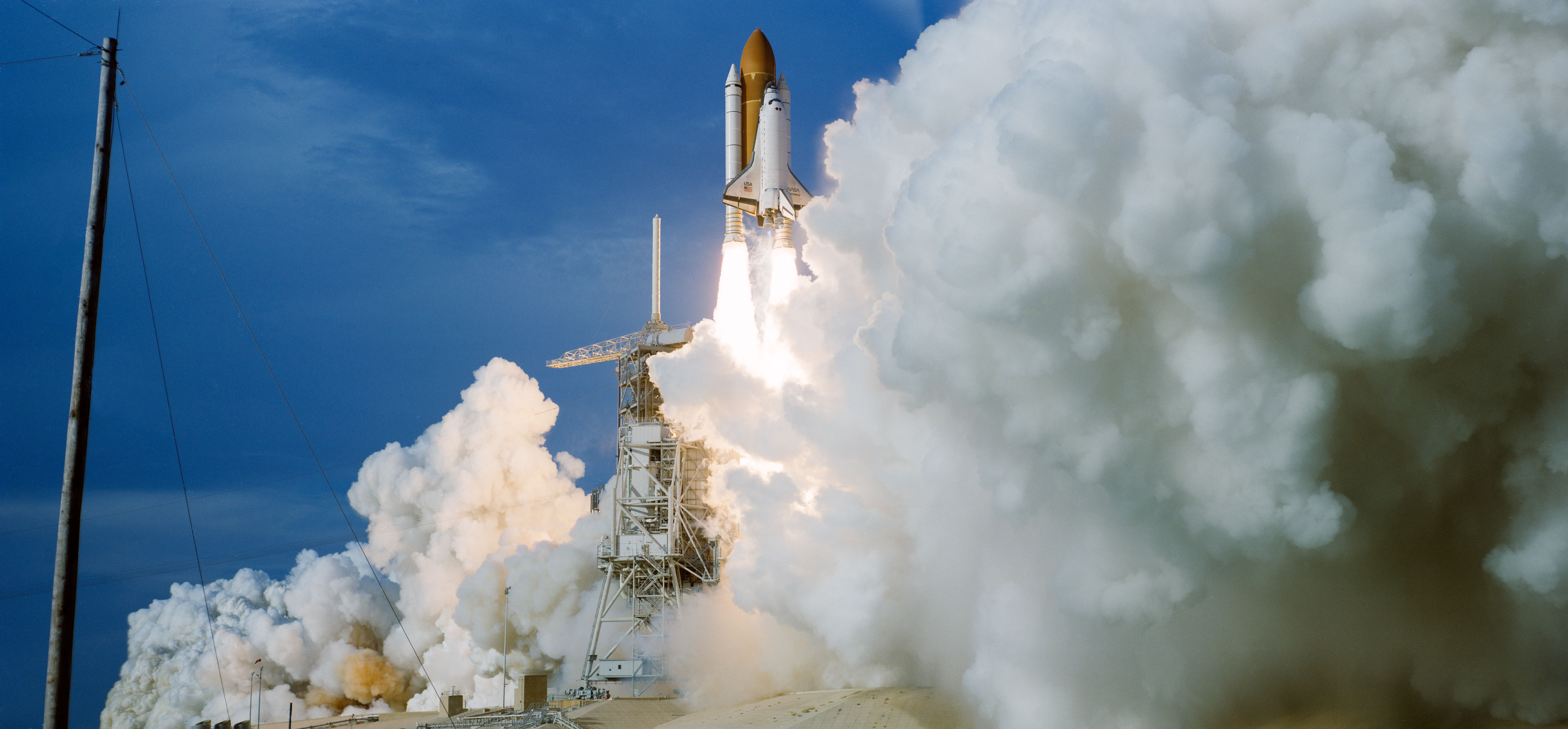 With a crew of six NASA astronauts aboard, the space shuttle Discovery heads for its nineteenth Earth-orbital mission. Launch was delayed because of weather, but all systems were "go," and the spacecraft left the launch pad at 6:23 p.m. (EDT) on Sept. 9, 1994. Onboard were astronauts Richard N. Richards, L. Blaine Hammond, Carl J. Meade, Mark C. Lee, Susan J. Helms and Jerry M. Linenger.